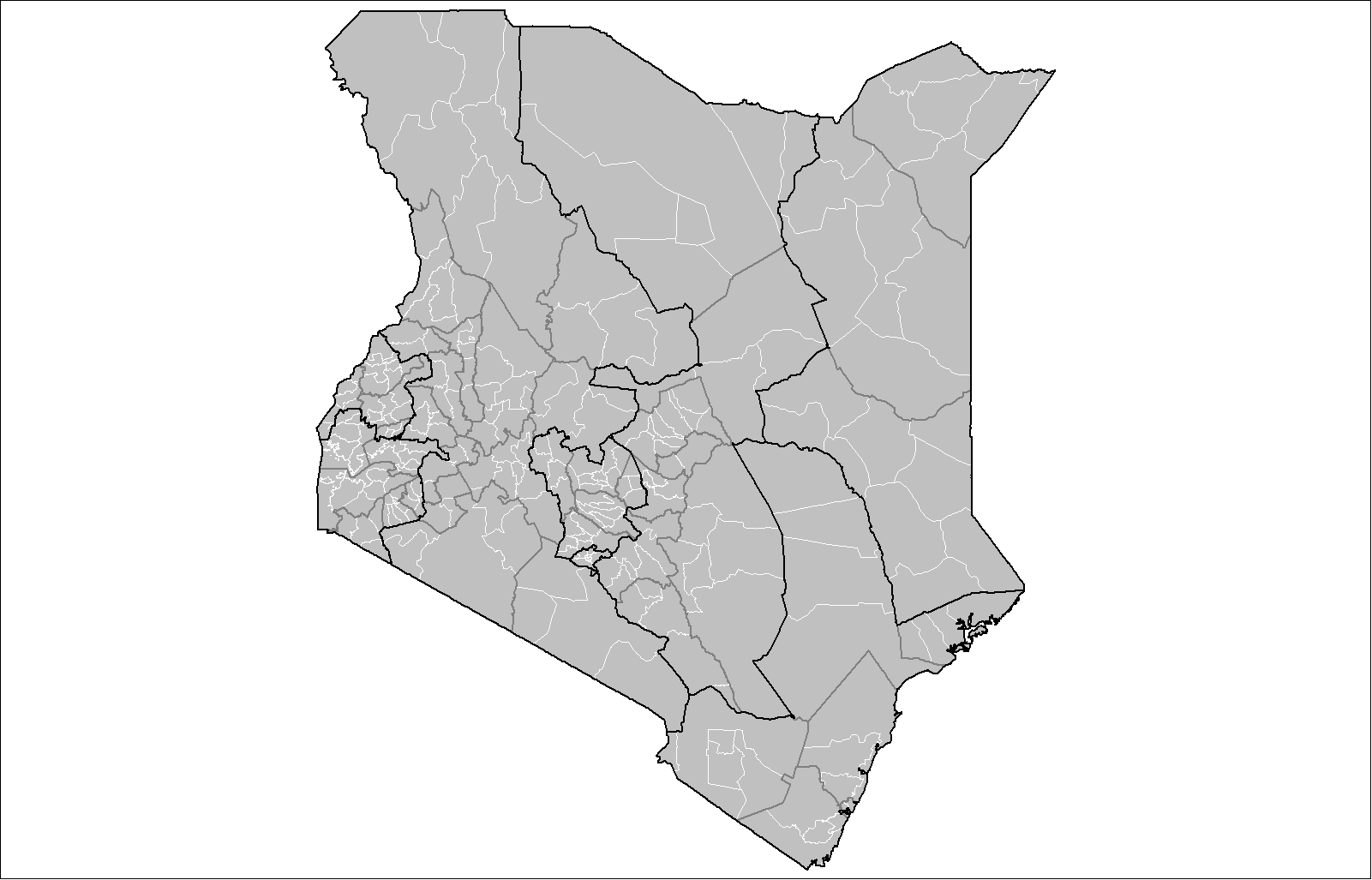 Map of the divisions of Kenya. Created by Rarelibra 21:44, 11 April 2007 (UTC) for public domain use, using MapInfo Professional v8.5 and various mapping resources.